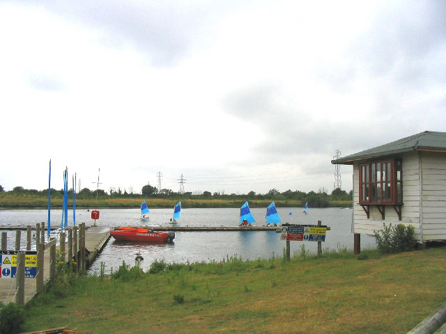 Russell's Lake, Stubbers Outdoor Pursuits Centre, Essex. Old gravel workings now used by local authority as sail training centre.